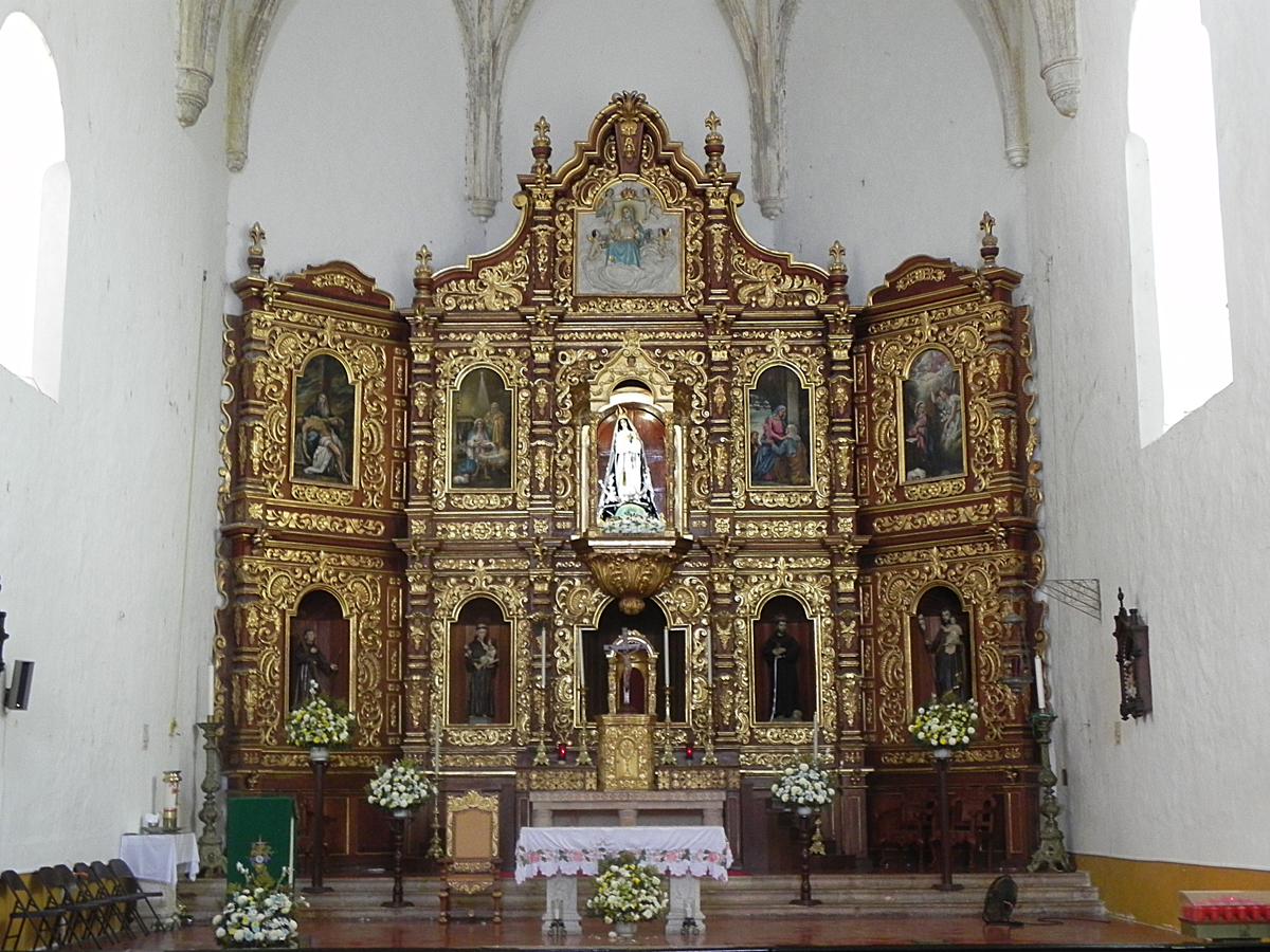 Convento De San Antonio De Padua - Altar inside the church